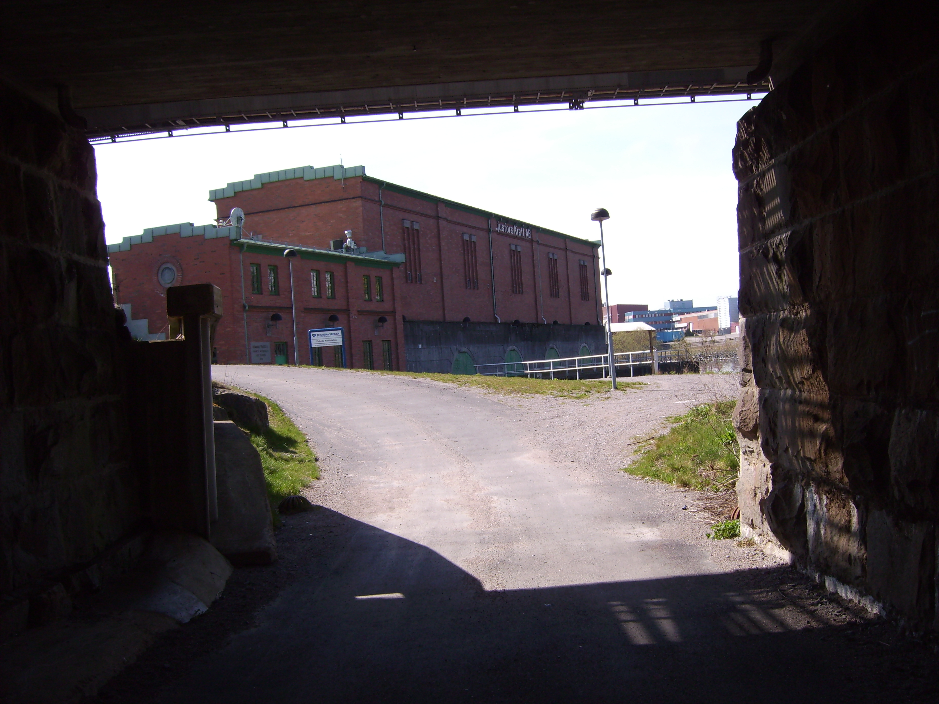 The power station Fiskeby kraftstation, established 1873, in Fiskeby, Norrköping, Sweden.